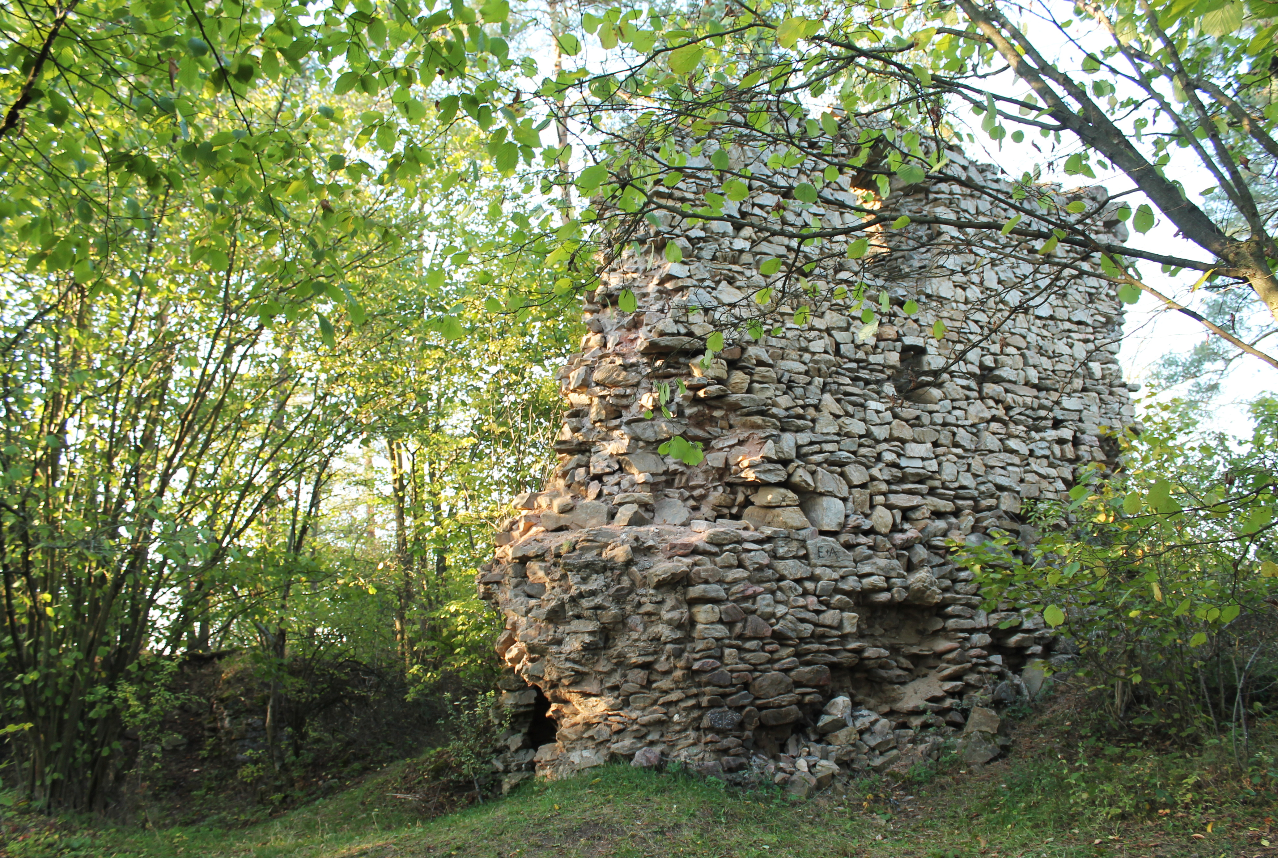 Víckov Castle, Žďárec, Brno-Country District, Czech Republic